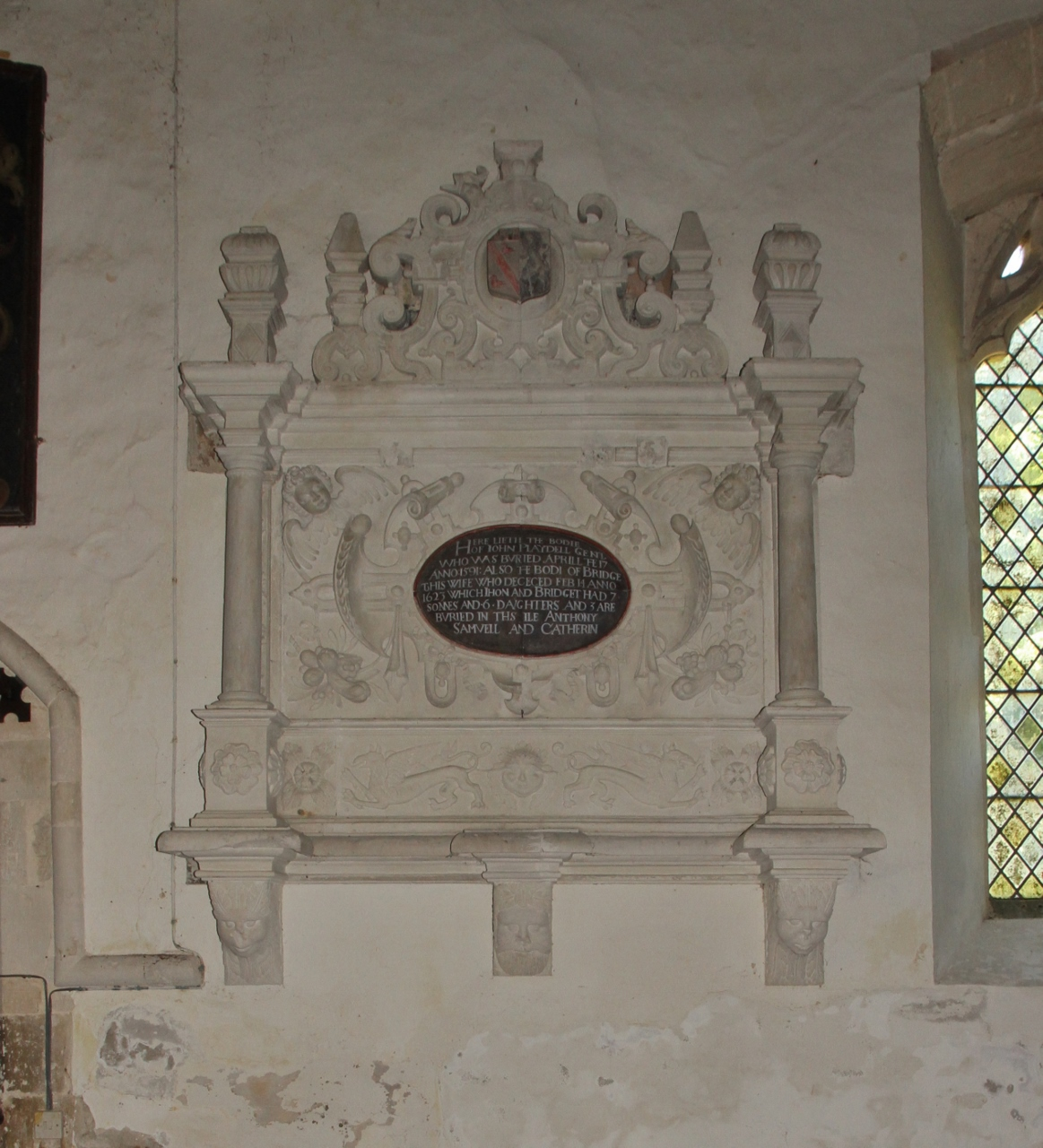 Monument in Holy Rood parish church, Sparsholt, Oxfordshire (formerly Berkshire) to